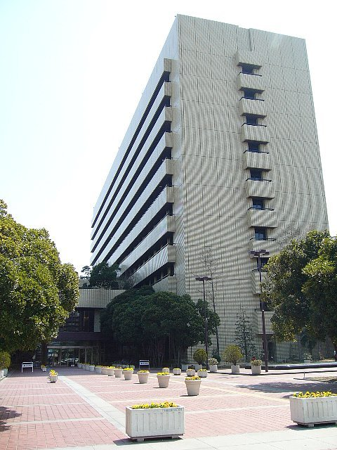 Hyōgo City Hall in Hyōgo Prefecture, Japan